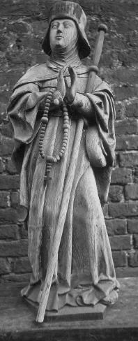 An image of Saint Reineldis as a pilgrim to the Holy Land; carved out of oak